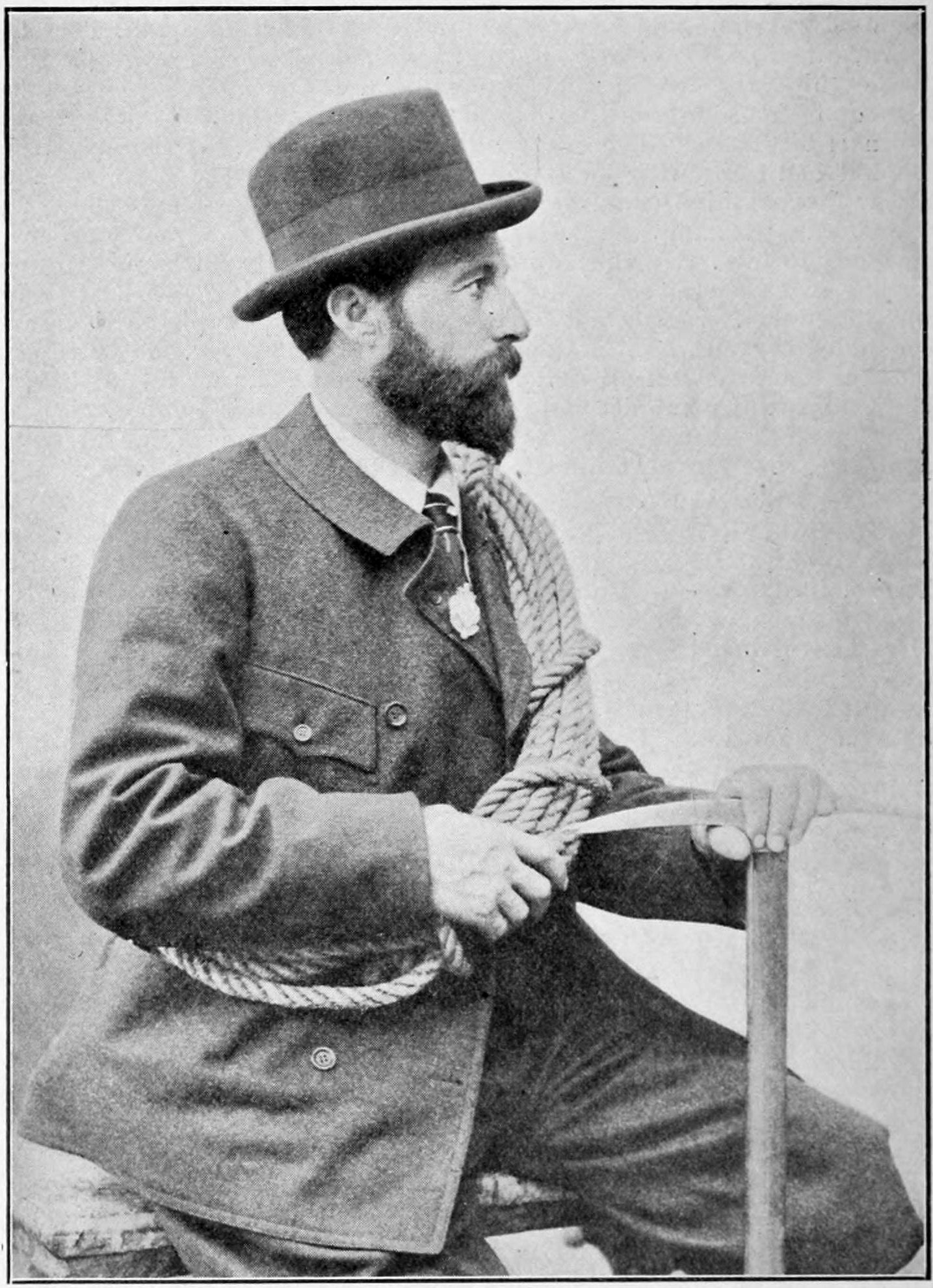 Edouard Feuz of Interlaken